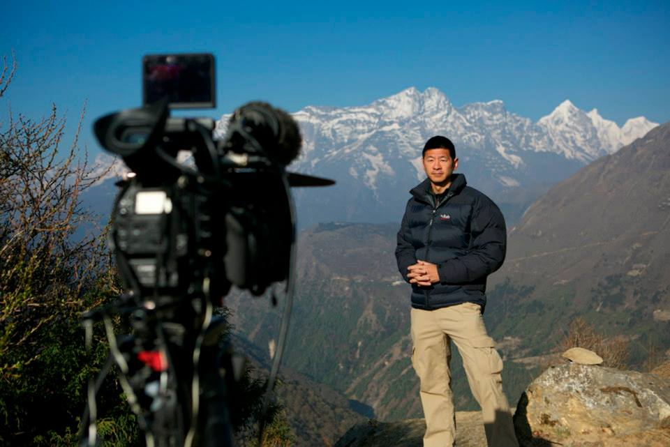 Steve Chao, presenter for 101 East, conducts a piece to camera in front of the Himalayas.